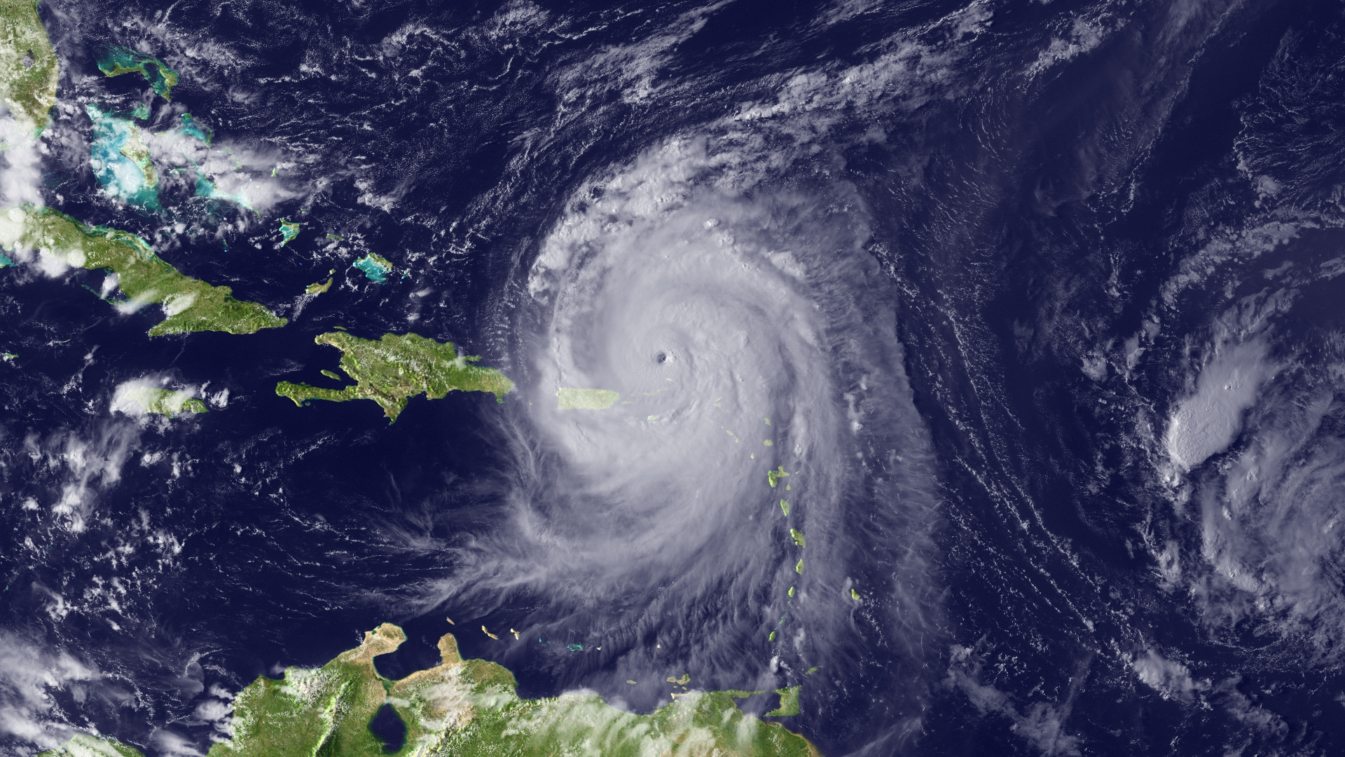 The NOAA National Hurricane Center has forecast that Hurricane Earl will become a Major Hurricane in the next 12 to 24 hours, with a broad peak in intensity in 36 - 72 hours.